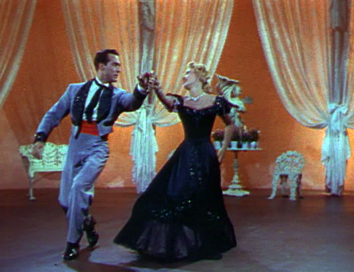 Screenshot from the trailer of the film "Two Weeks With Love" (1950), showing Ricardo Montalban and Jane Powell.